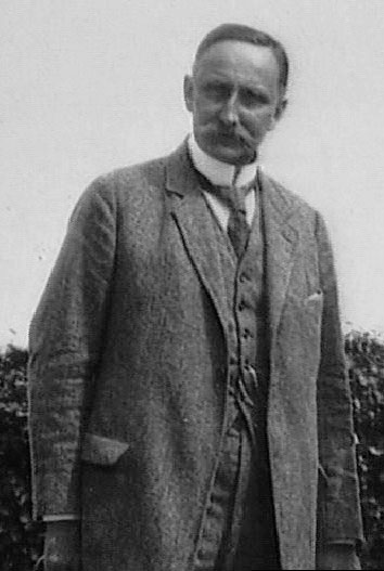 Portrait of Karl Haushofer